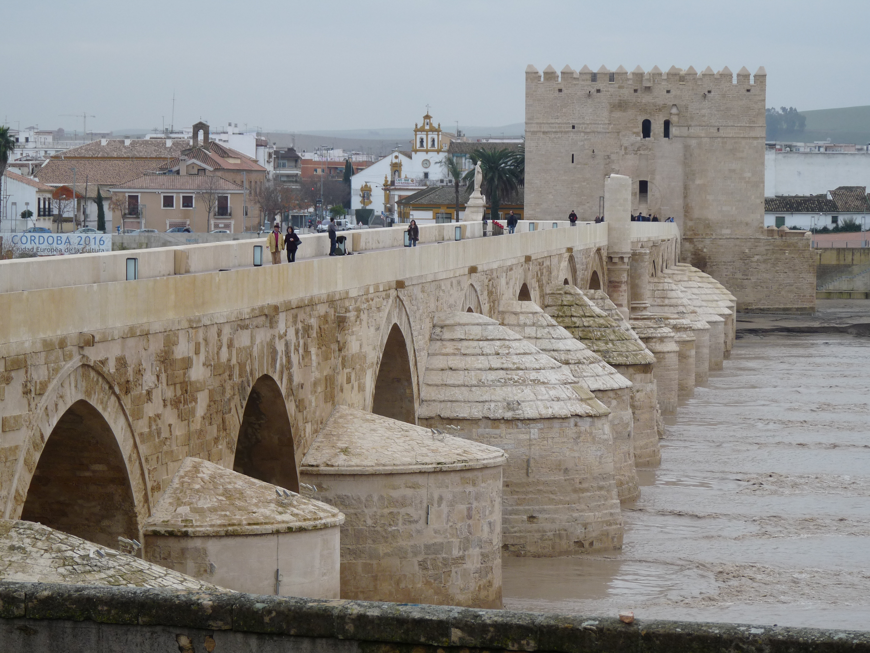 Cordoba, Roman Bridge